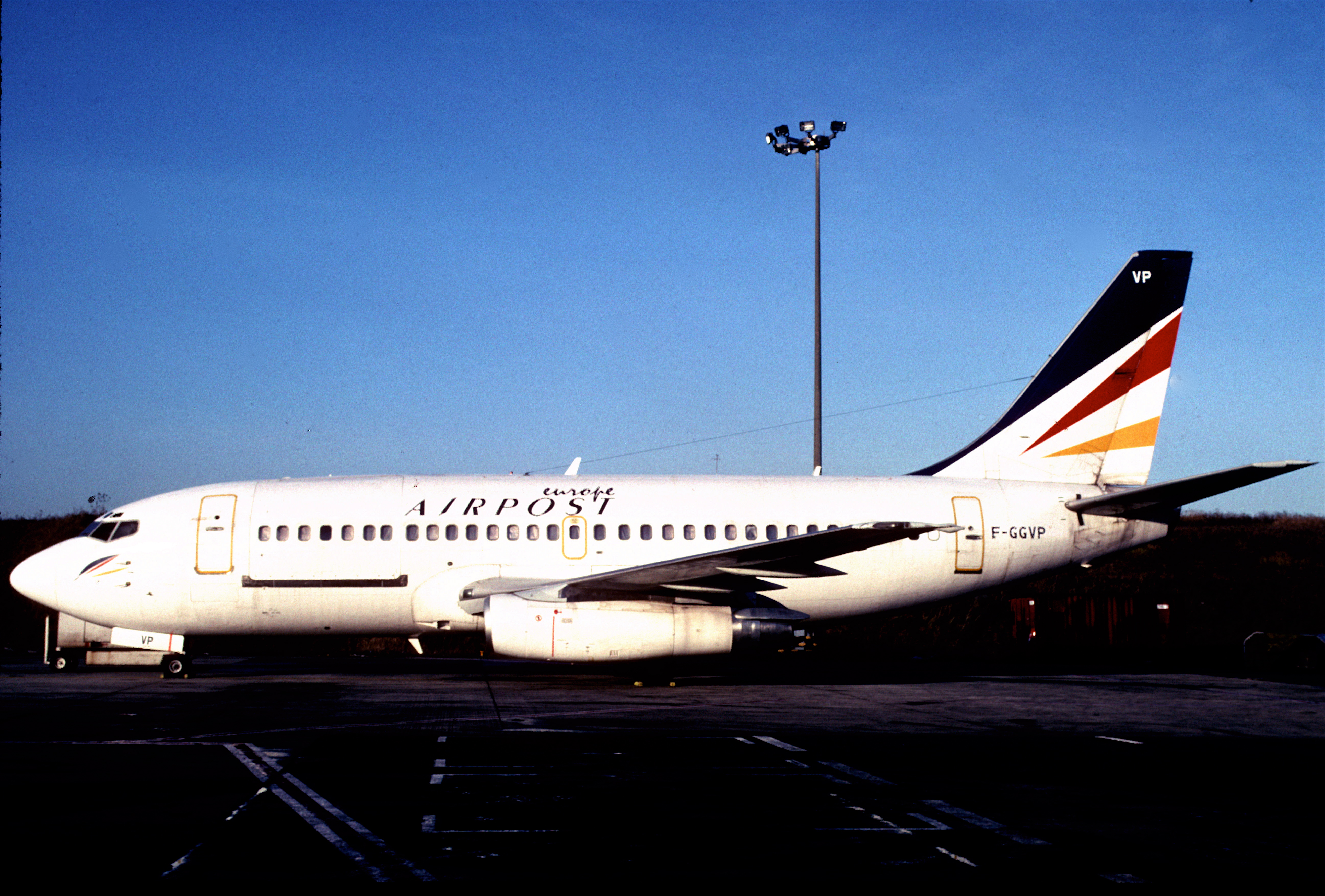 Europe Airpost Boeing 737-200 (QC); F-GGVP, December 2001